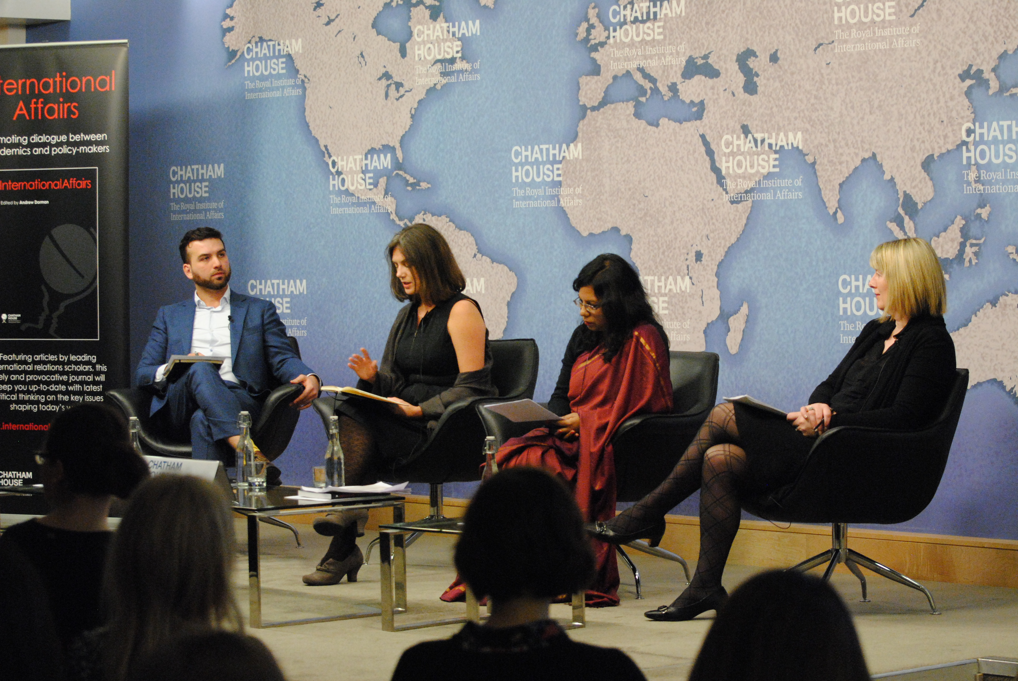 Right to left: Professor Fionnuala Ní Aoláin, Robina Chair in Law, Public Policy, and Society, University of Minnesota; Professor of Law, University of Ulster Dr Soumita Basu, Assistant Professor, Department of International Relations, South Asian University Dr Laura J. Shepherd, Visiting Fellow, LSE Gender Institute and Centre for Women, Peace and Security; Associate Professor of International Relations, UNSW Australia Chair: Dr Paul Kirby, Visiting Fellow, LSE Centre for Women, Peace and Security; Lecturer in International Security, University of Sussex cht.hm/1YqQkM3